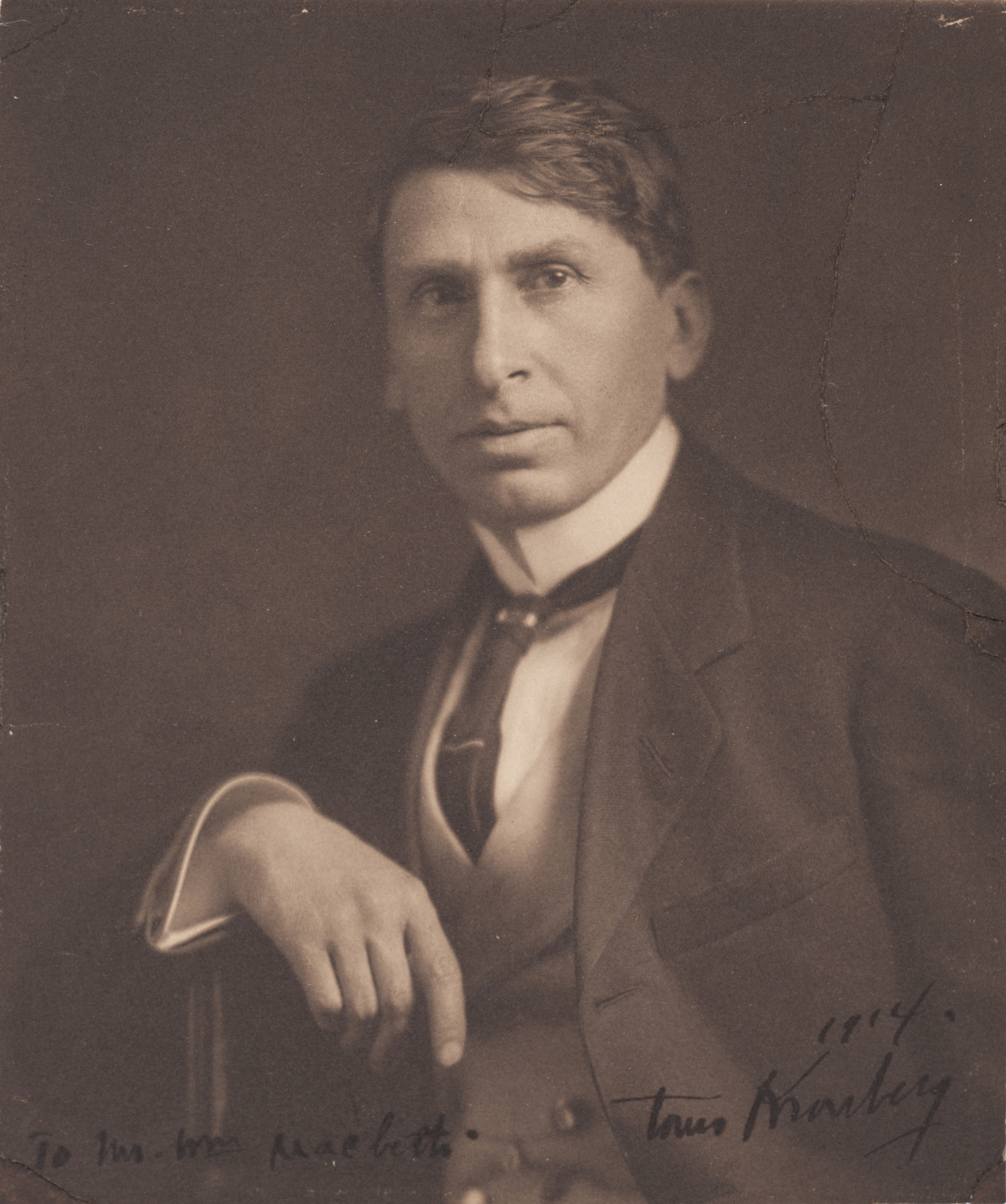 Louis Kronberg, American figure painter. Inscription reads, "To Mr. Wm. Macbeth. 1914 Louis Kronberg"